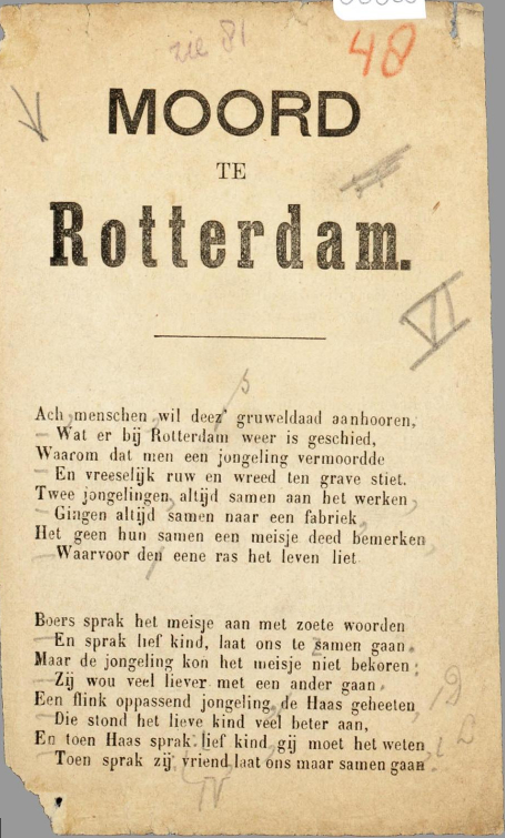 Broad sheet (music sheet) with songtext 'Murder in Rotterdam' (fragment).